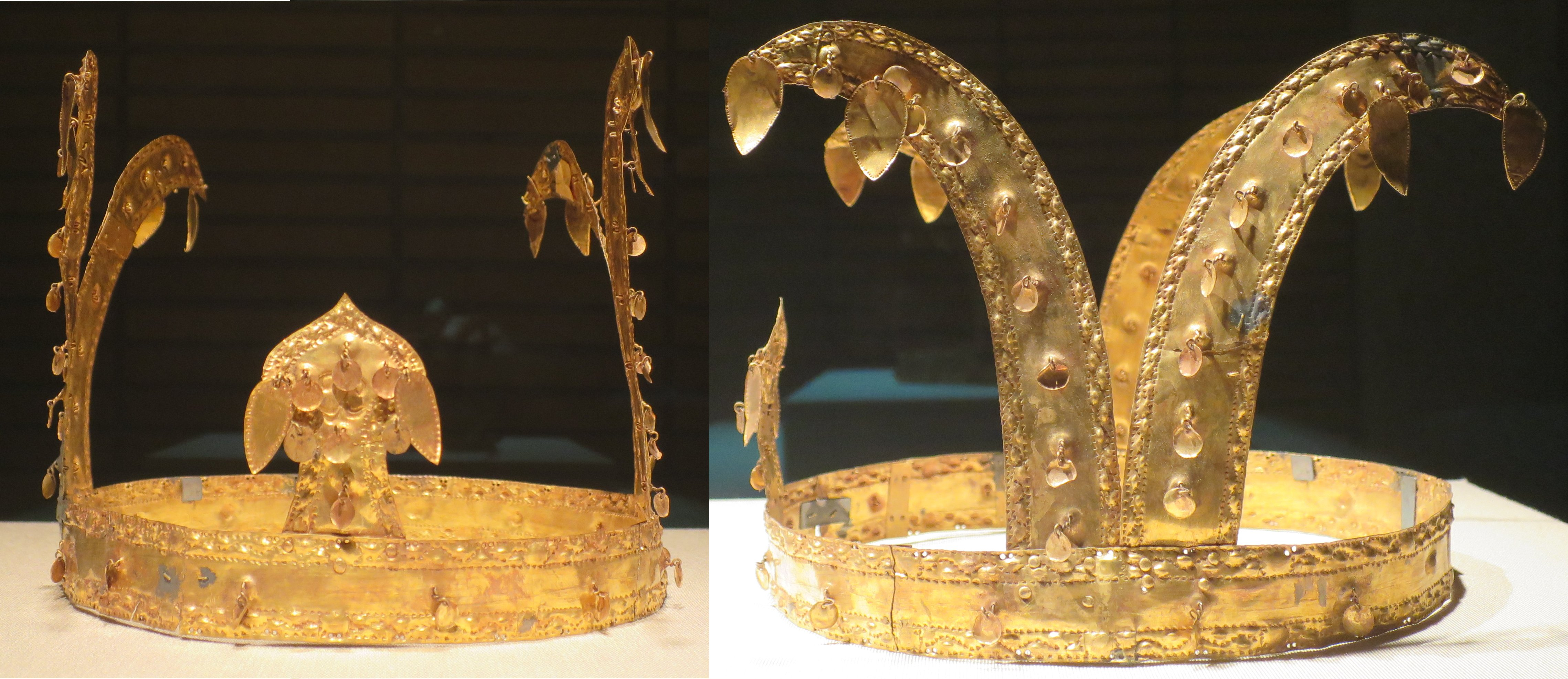 Crown from Korea, Three Kingdoms period (Gaya), 5th century, Important Art Object, Tokyo National Museum (front and side views)